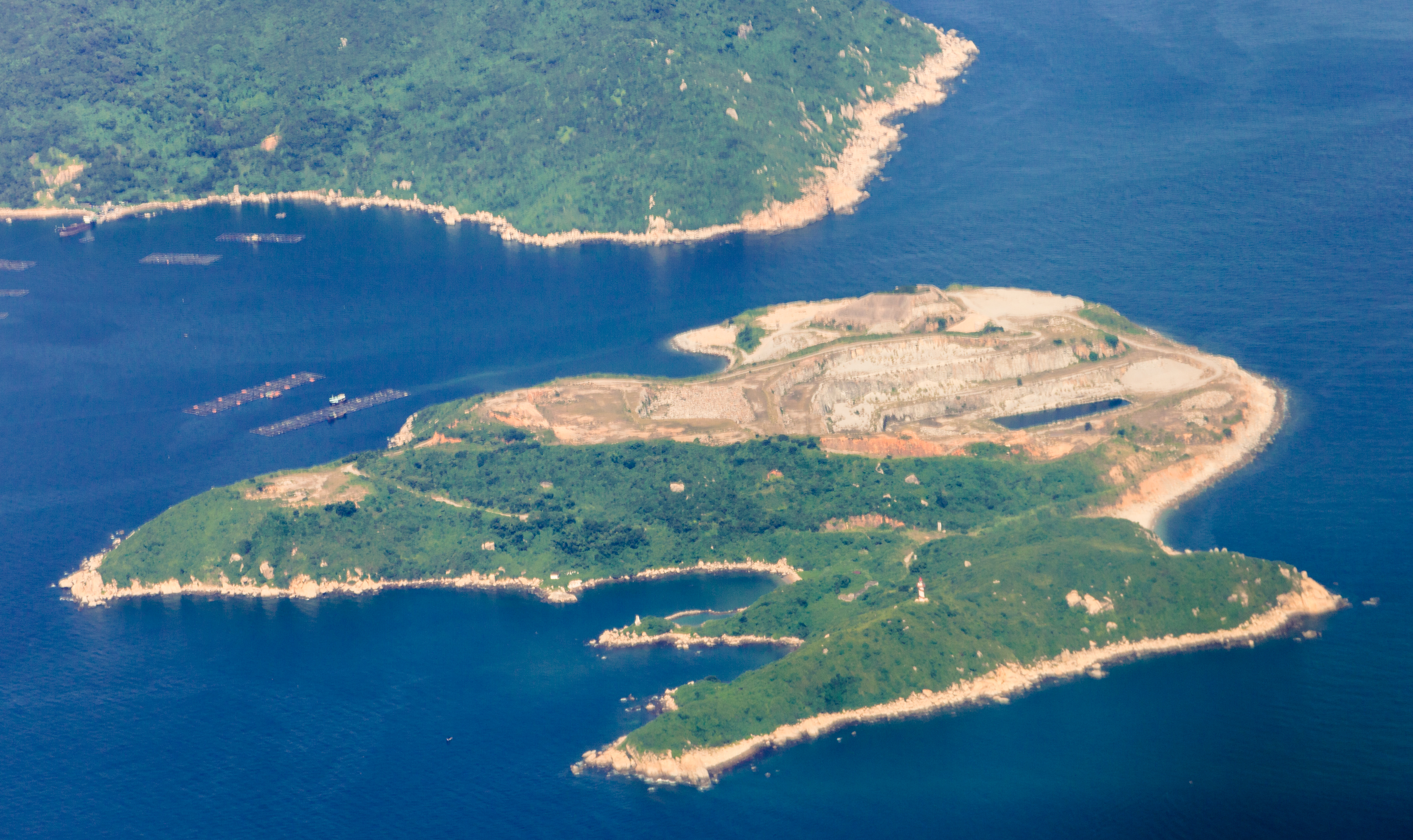 Islas del archipiélago Wanshan, Hong Kong